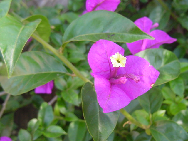 Bougainvillea flower, close-up